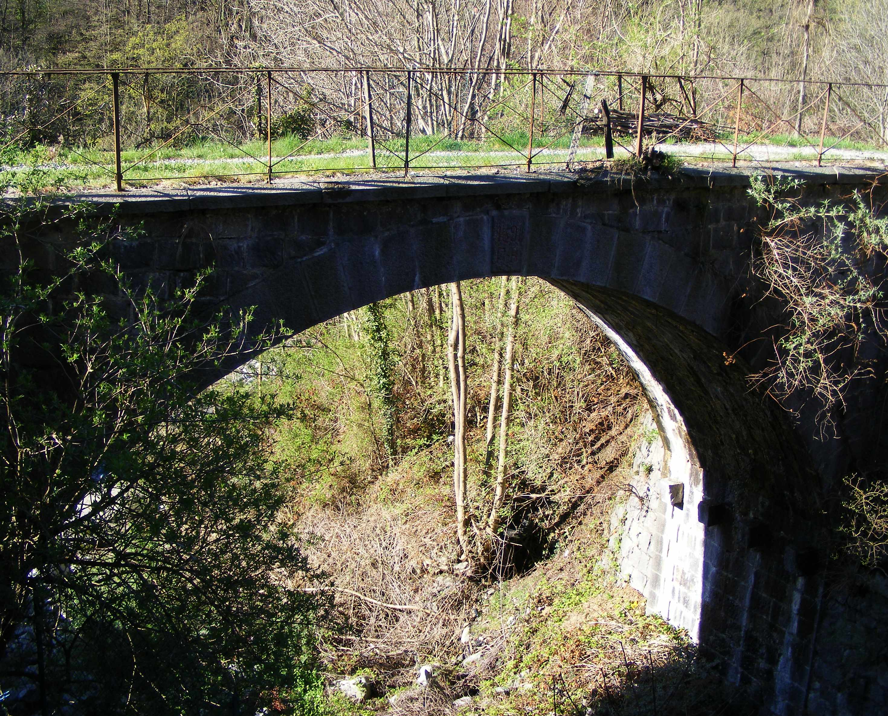 Former railway line Biella-Balma (BI, Italy): bridge between Sagliano and Balma